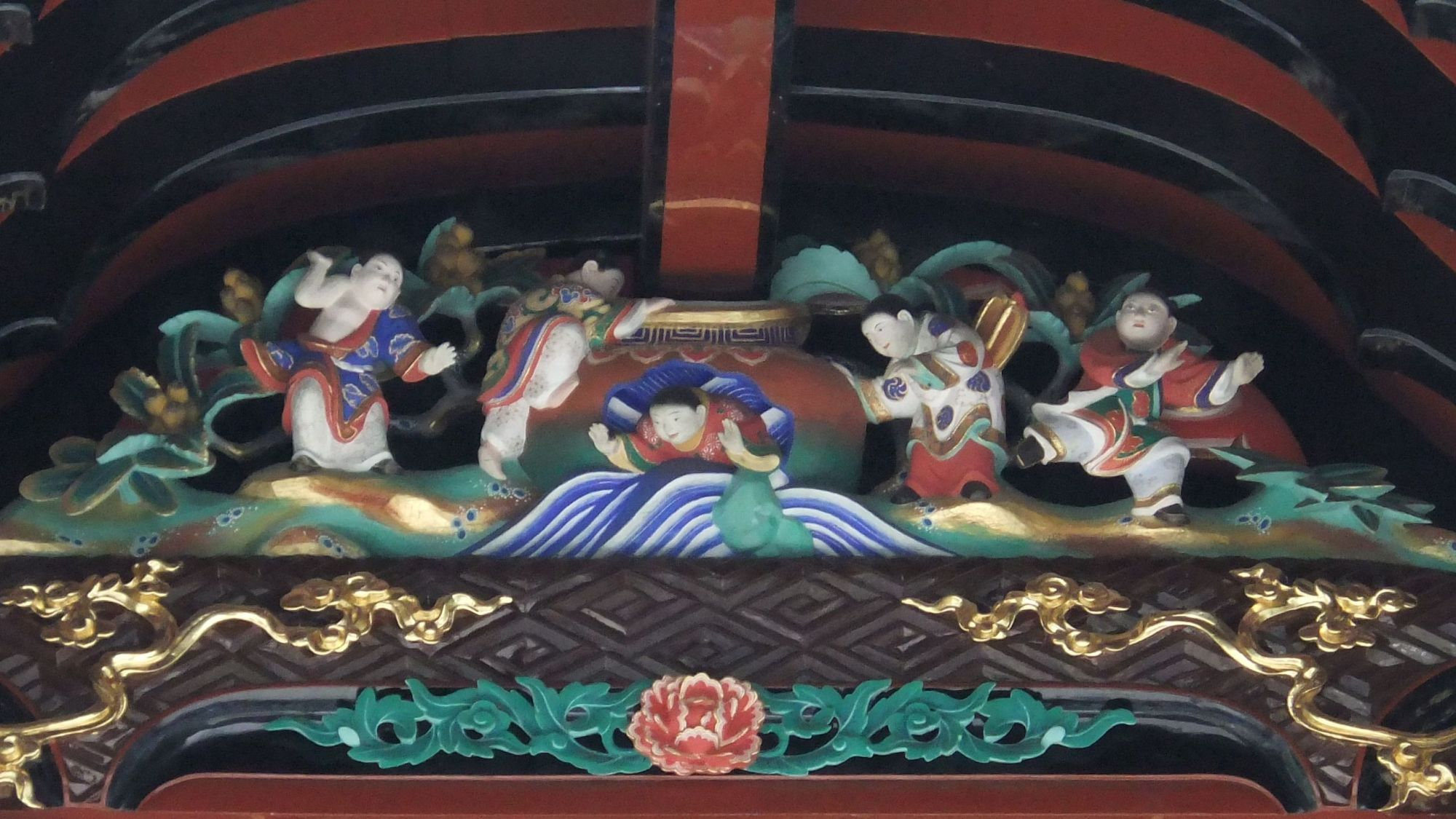 Carving art of the Kangi-in Temple (Menuma Shōden) in Kumagaya, Saitama.